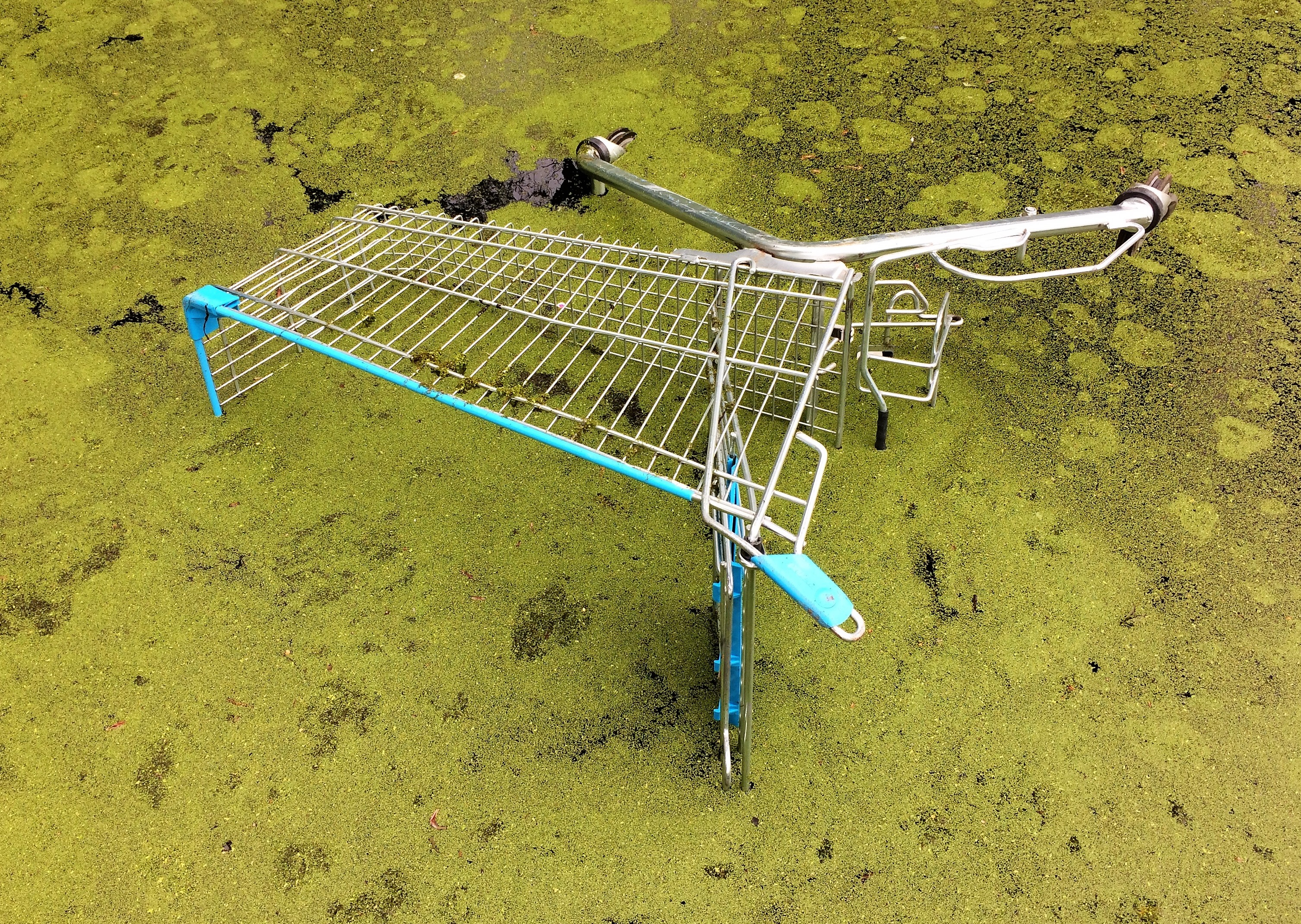 A shopping cart, thrown into a moat by vandals, near a shopping mall in Leidschendam, Netherlands.